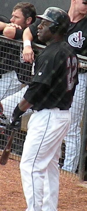 Darryl Brinkley of the Calgary Vipers, June 14, 2008.